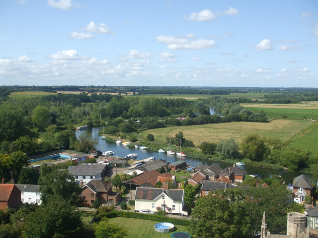 The Meandering River Waveney From Beccles Church Tower The fiver heading off to Geldeston, the Beccles open air swimming pool is on the left.